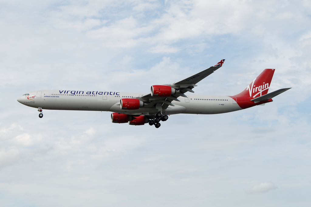 G-VWEB Airbus A340-642 msn 787 operated by Virgin Atlantic Airways and seen on short finals for 27R at London Heathrow (LHR/EGLL).